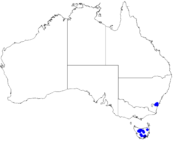 Boronia rhomboidea downloaded from Australasian Virtual Herbarium 10 April 2019 using This download included all the environmental overlay fields and ALA's data checking fields including "cultivated / escapee", "outside expert range for species", "latitude is negated", "coordinates are transposed", "taxon misidentified", "habitat incorrect for species", and "suspected outlier" (711 fields). Deleting occurrences for which any of the above were true, 46 specimens with coordinates were deleted.